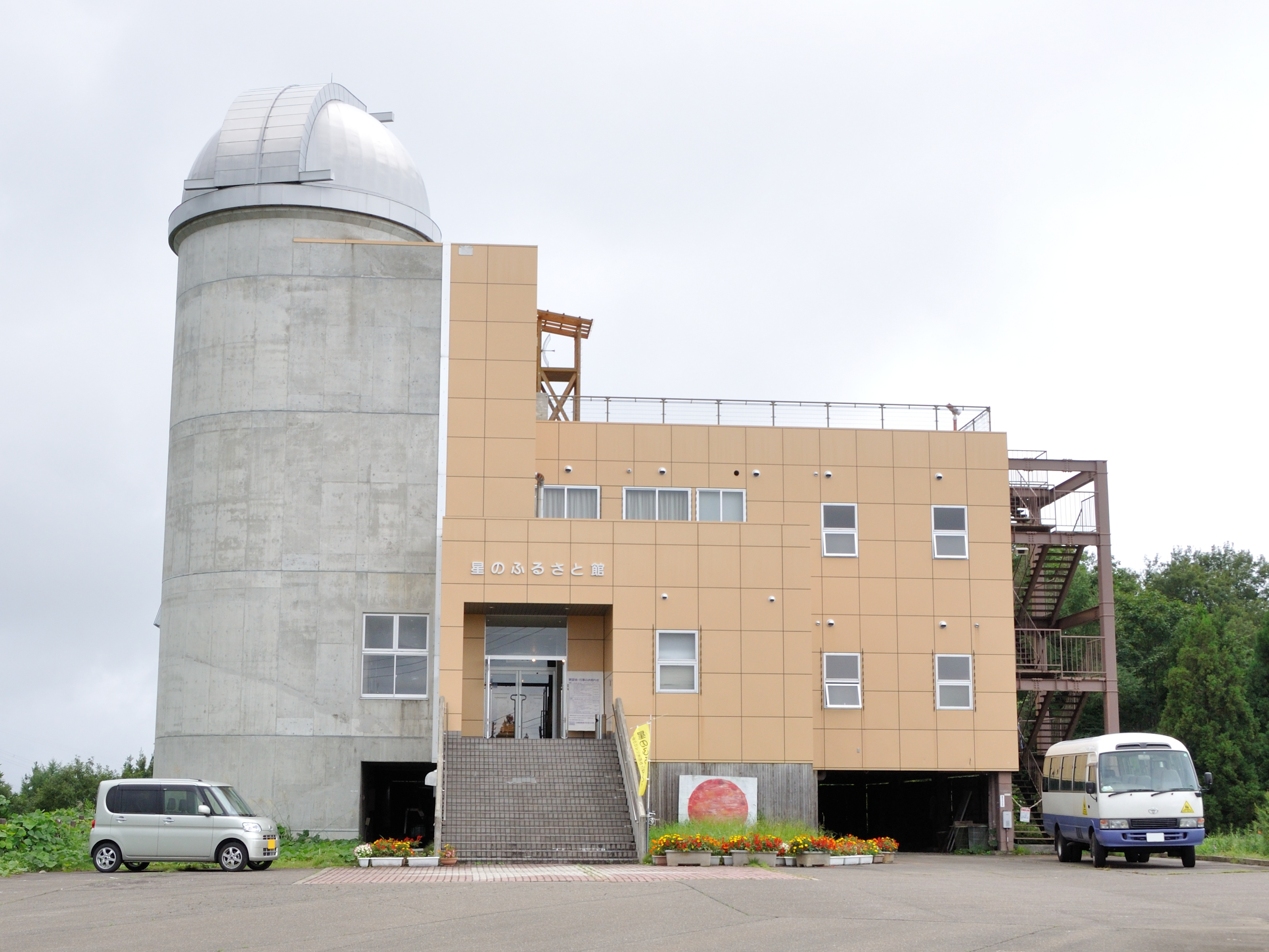 Photograph of Joetsu Kiyosato Star Town Museum exterior. address 3436-2 Kiyosatoku Aoyanagi, Joetsu City, Niigata Prefecture, Japan